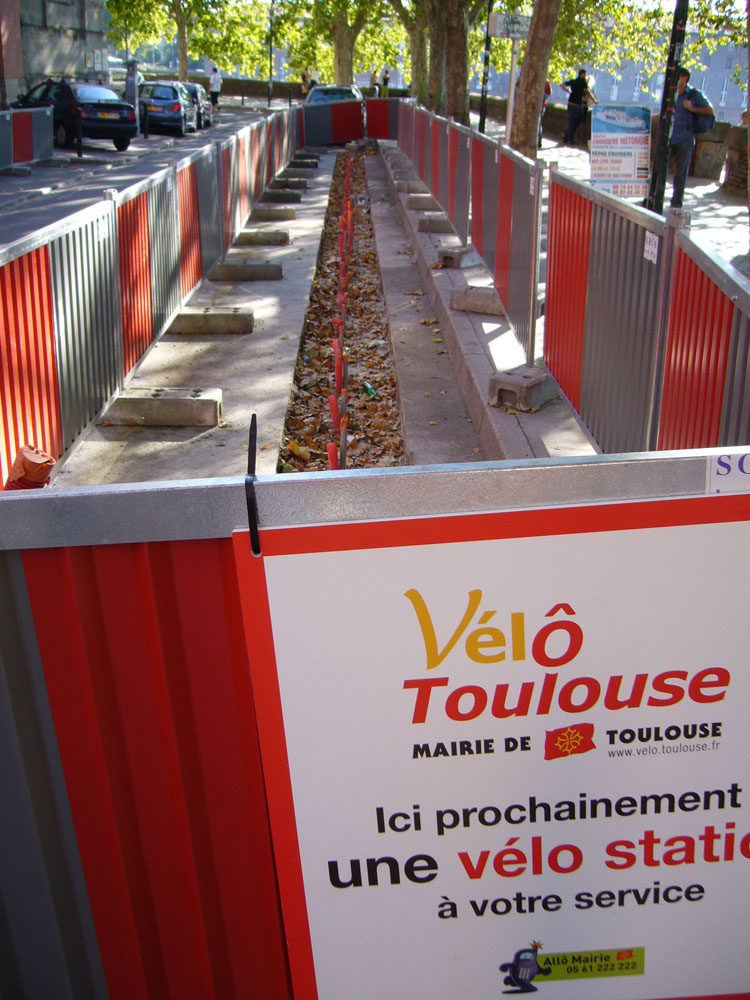 Works for the installation of a bicycle automated station at the Daurade in Toulouse (Haute-Garonne, Midi-Pyrénées, France).